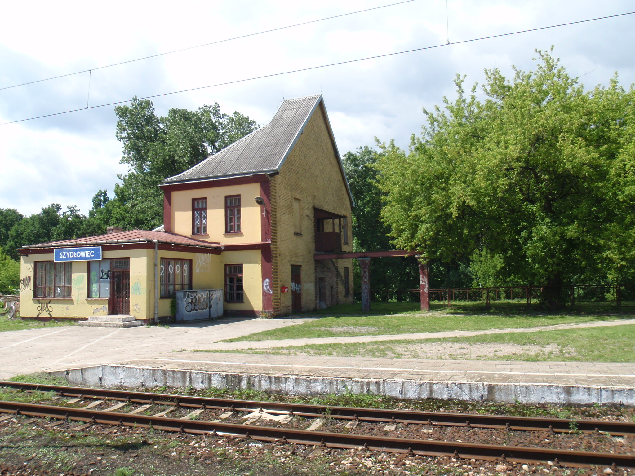 Train station in Szydłowiec